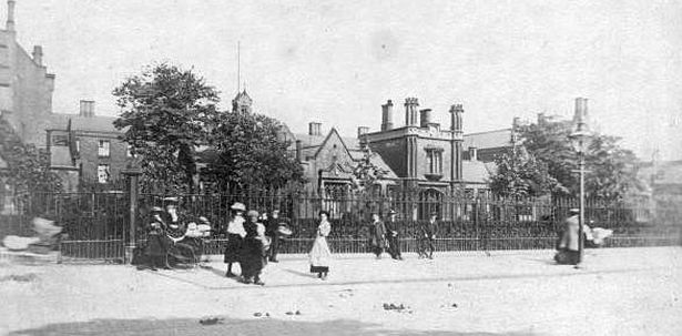 Sculcoates Union Workhouse (c.1913) from near Beverley Road Fountain road corner. Built 1843-1845.